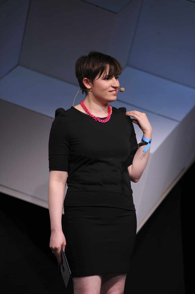 Laurie Penny at Re:publica 2013